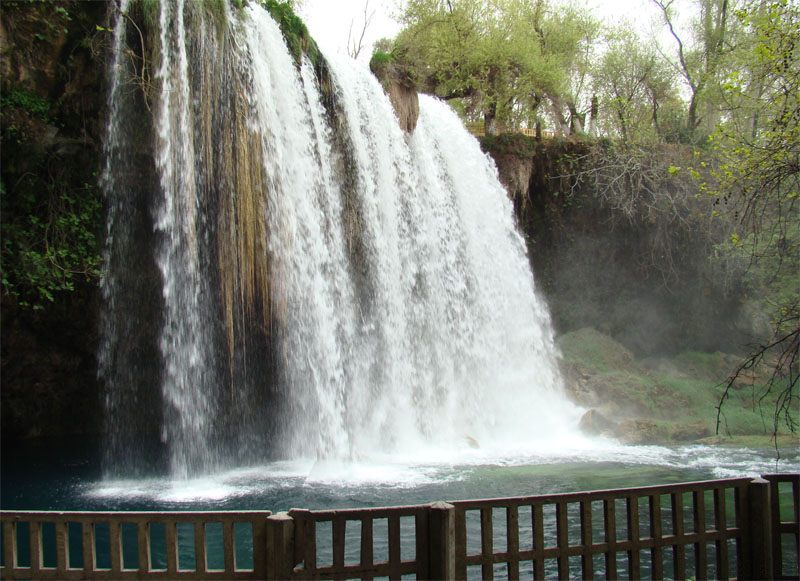 Düden Waterfalls Antalya